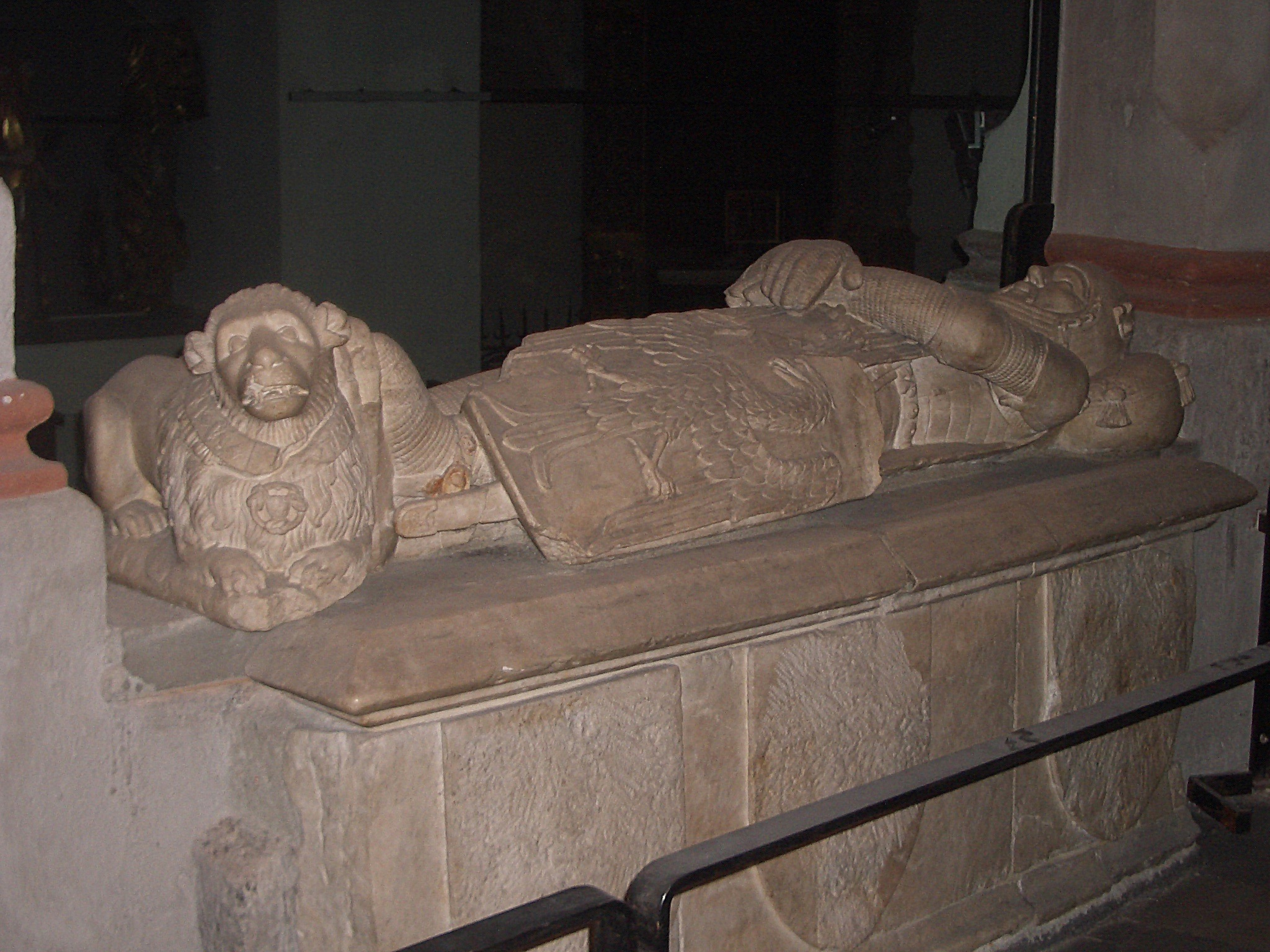 Stefano Mossettaz, Sepulchral monument, Cathedral, Aosta, Italy - Thomas II of Savoy